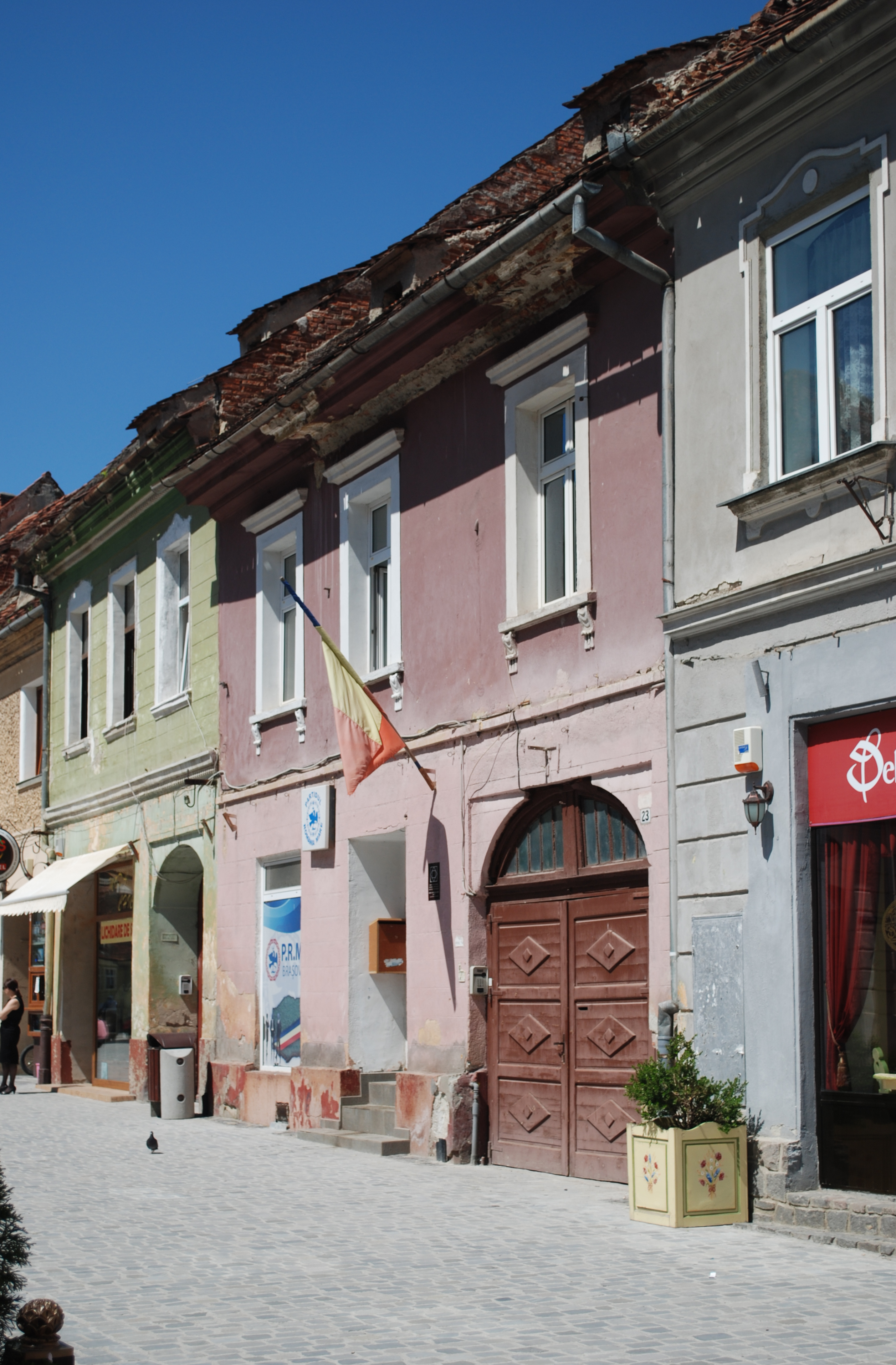 Former Golden Angel Inn in Brașov, RomaniaRomână: Fostul han „La îngerul auriu” din Brașov, România